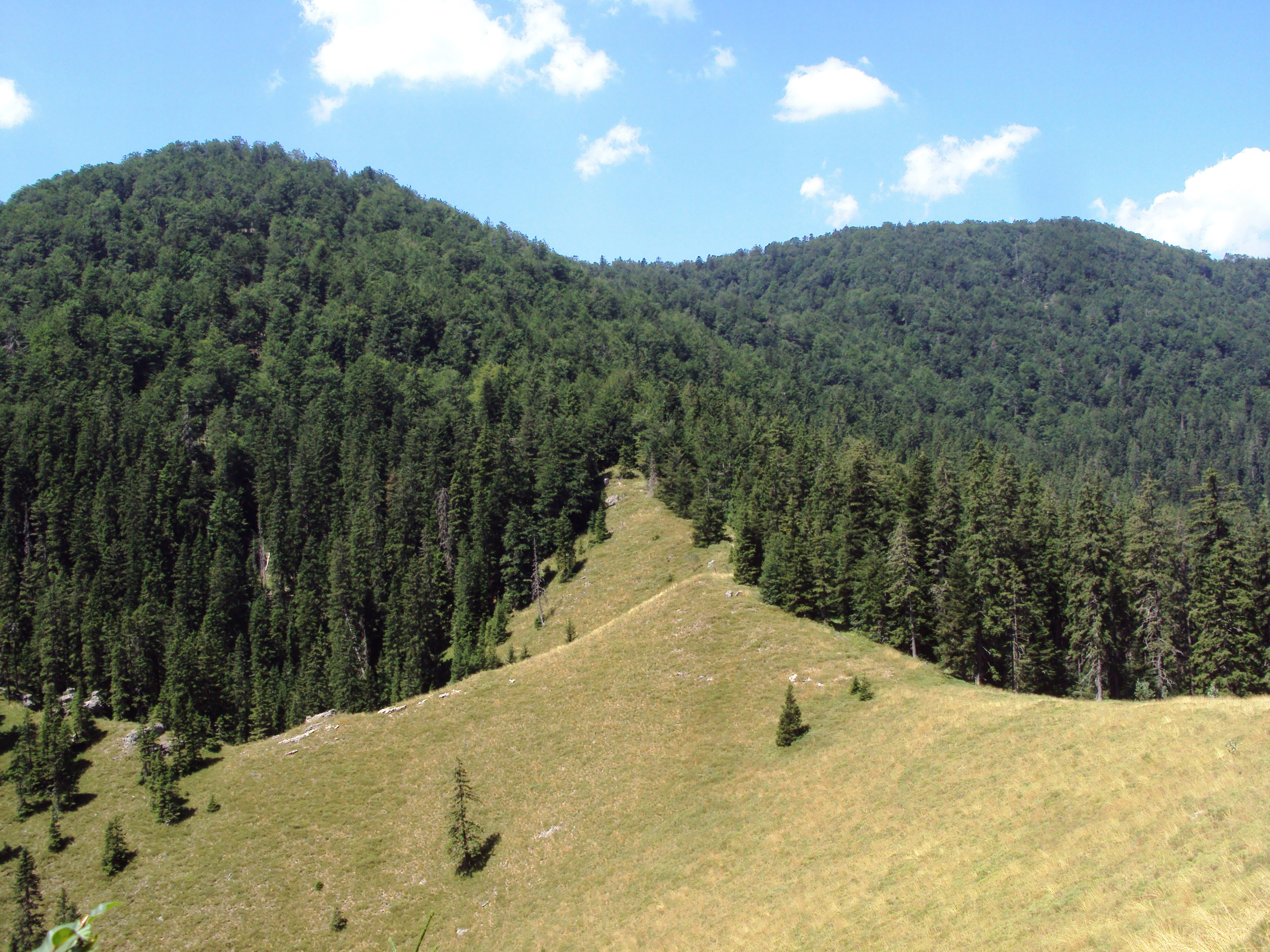 Forest on the Velebit Mountains, Croatia